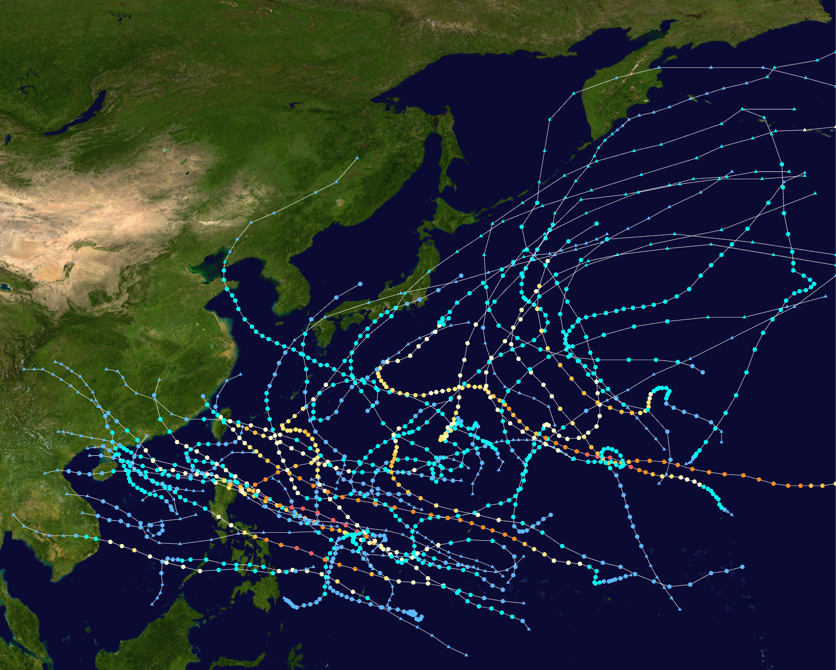 This map shows the tracks of all tropical cyclones in the 1967 Pacific typhoon season. The points show the location of each storm at 6-hour intervals. The colour represents the storm's maximum sustained wind speeds as classified in the Saffir-Simpson Hurricane Scale (see below), and the shape of the data points represent the nature of the storm. Saffir–Simpson hurricane wind scale Tropical depression≤38 mph≤62 km/h Category 3111–129 mph178–208 km/h Tropical storm39–73 mph63–118 km/h Category 4130–156 mph209–251 km/h Category 174–95 mph119–153 km/h Category 5≥157 mph≥252 km/h Category 296–110 mph154–177 km/h Unknown Storm typeTropical cycloneSubtropical cycloneExtratropical cyclone / Remnant low / Tropical disturbance